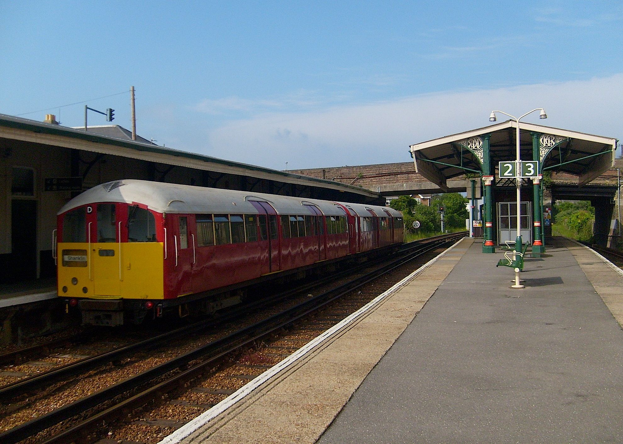 Island Line Class 483 No. 004 in London Underground livery at Ryde St. Johns Road